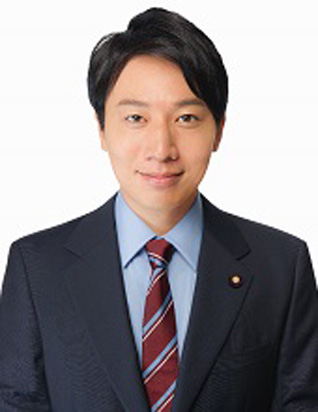 Ogura Masanobu was inaugurated as Parliamentary Vice-Minister for Internal Affairs and Communications on August, 2017